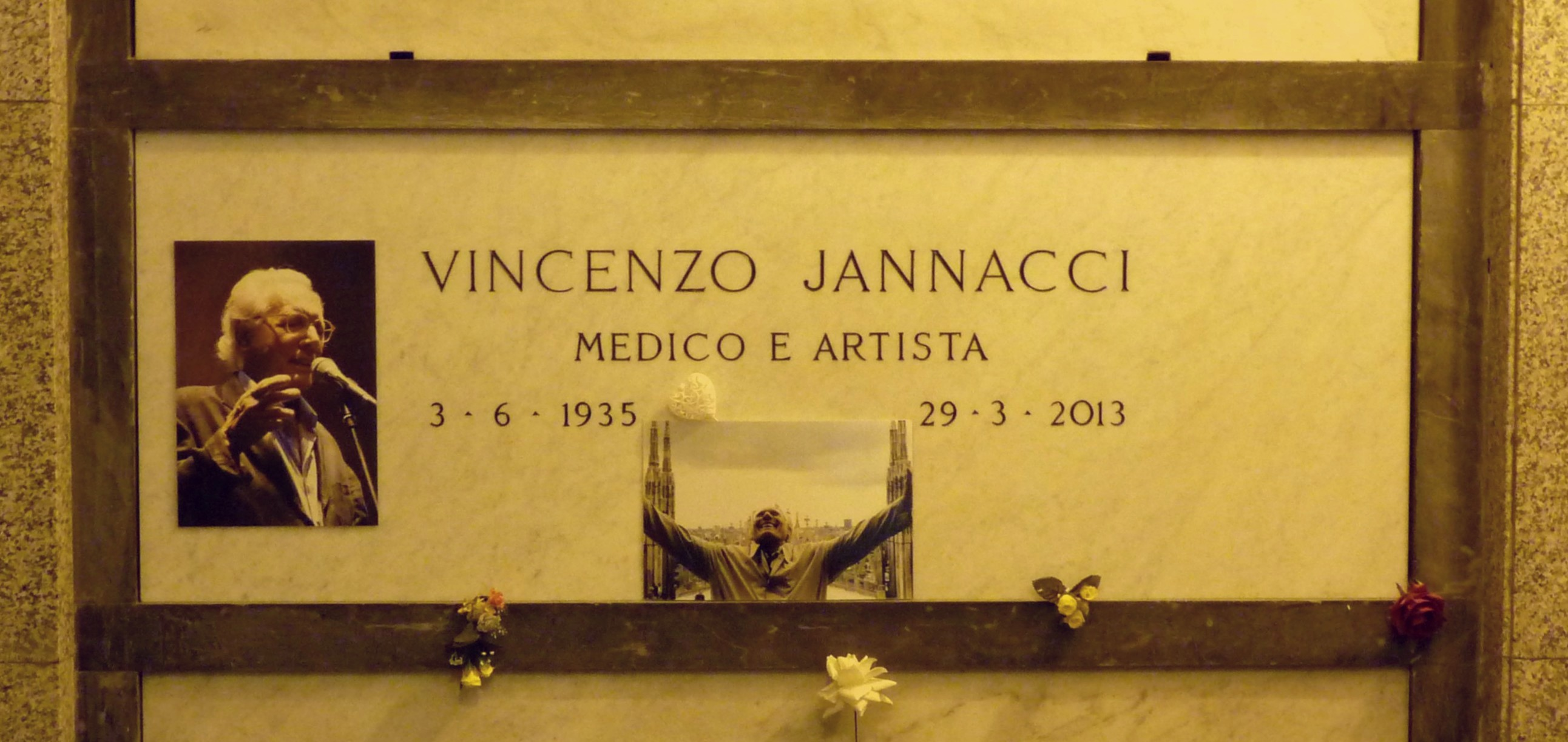 The grave of Italian singer-songwriter Enzo Jannacci at the Monumental Cemetery of Milan, Italy.